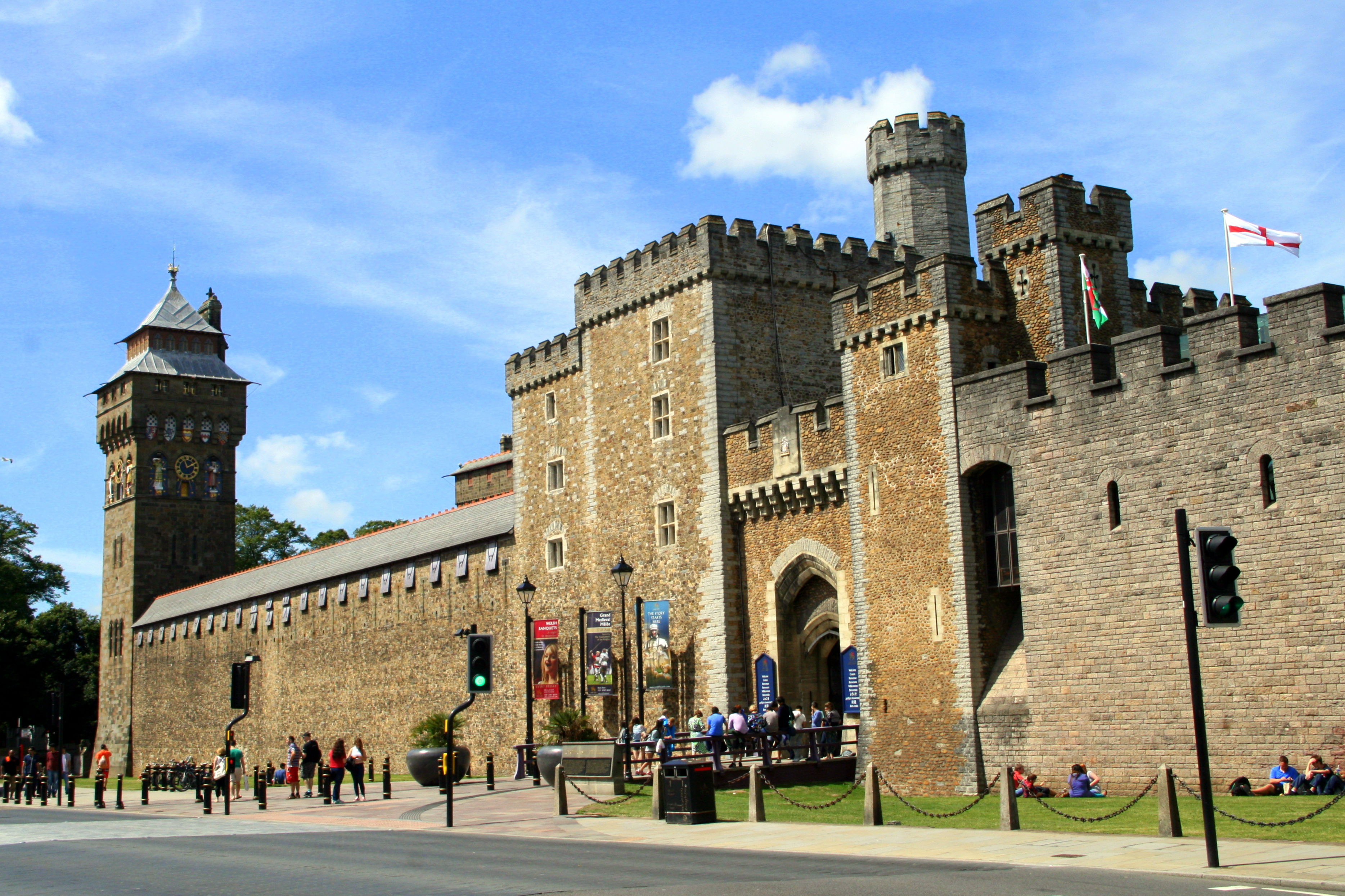 Cardiff Castle